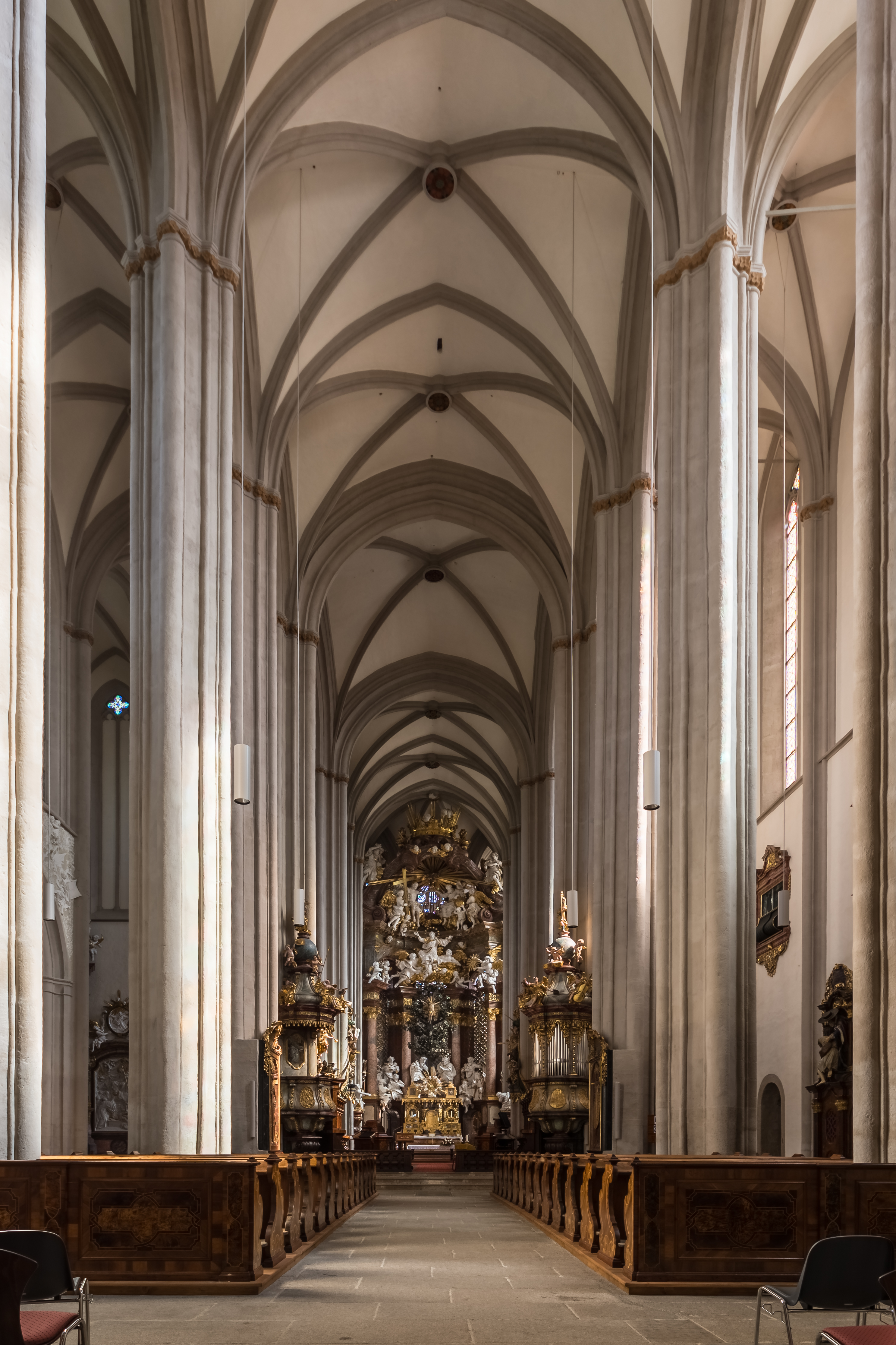 Interior of Zwettl Abbey Church, Lower Austria